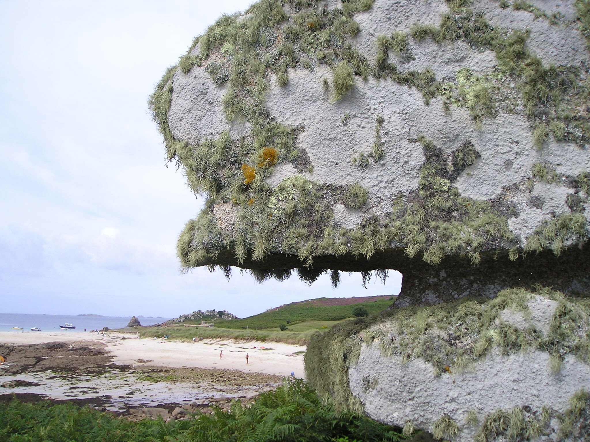 Lichen covered rock on the Isles of Scilly.